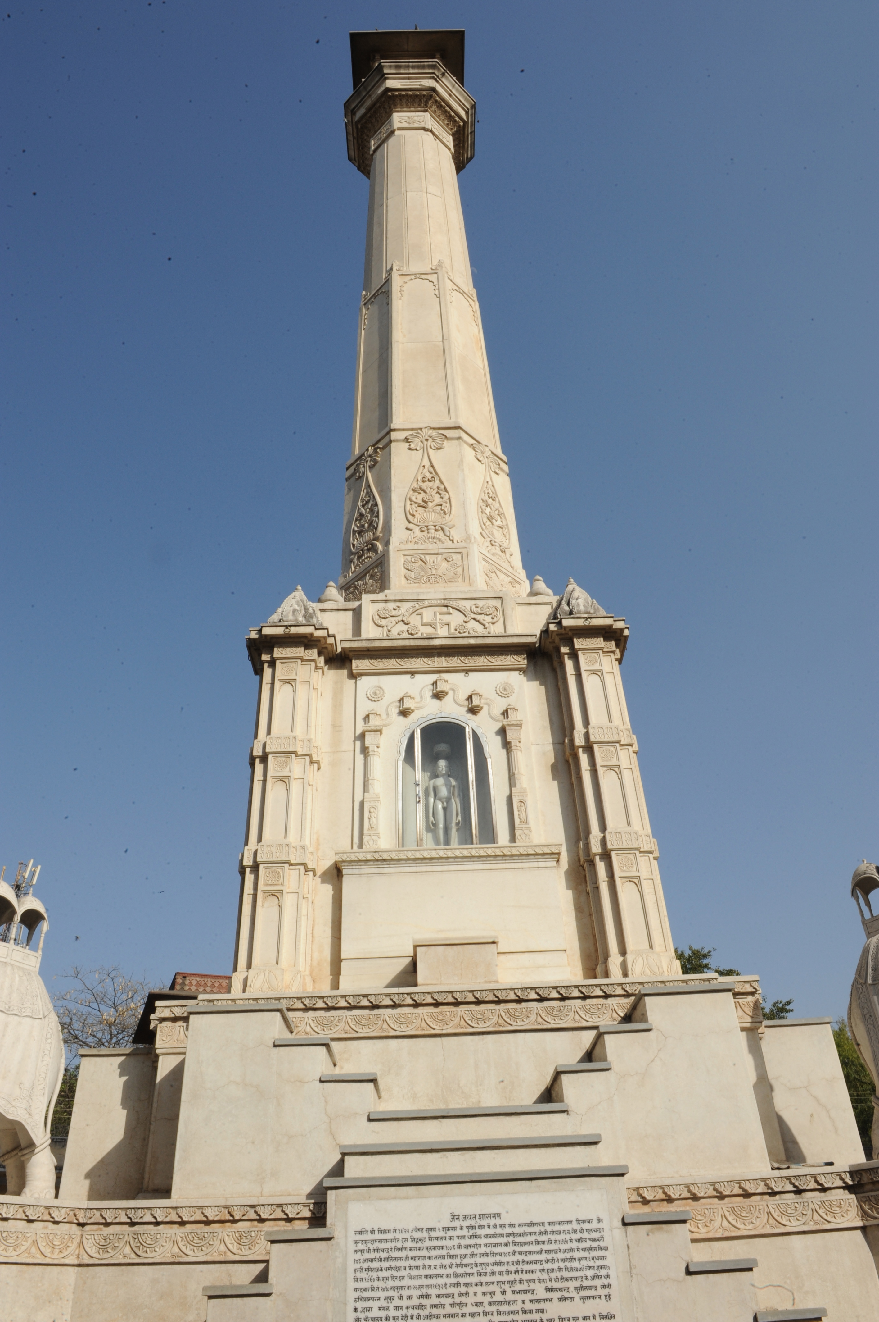 At a height of 82 feet, this is the highest Jain Manasthambha in the world